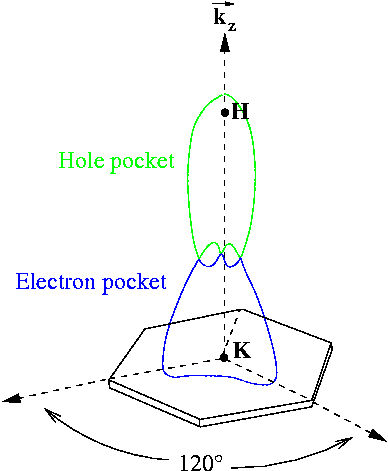 A view of the graphite Fermi surface at the corner of the Brillouin zone showing the trigonal symmetry of the electron and hole pockets. Created by Alison Chaiken using xfig. Concept from "Intercalation compounds of graphite, M.S. Dresselhaus and G. Dresselhaus, Adv. Phys. 51, 1 (2002).